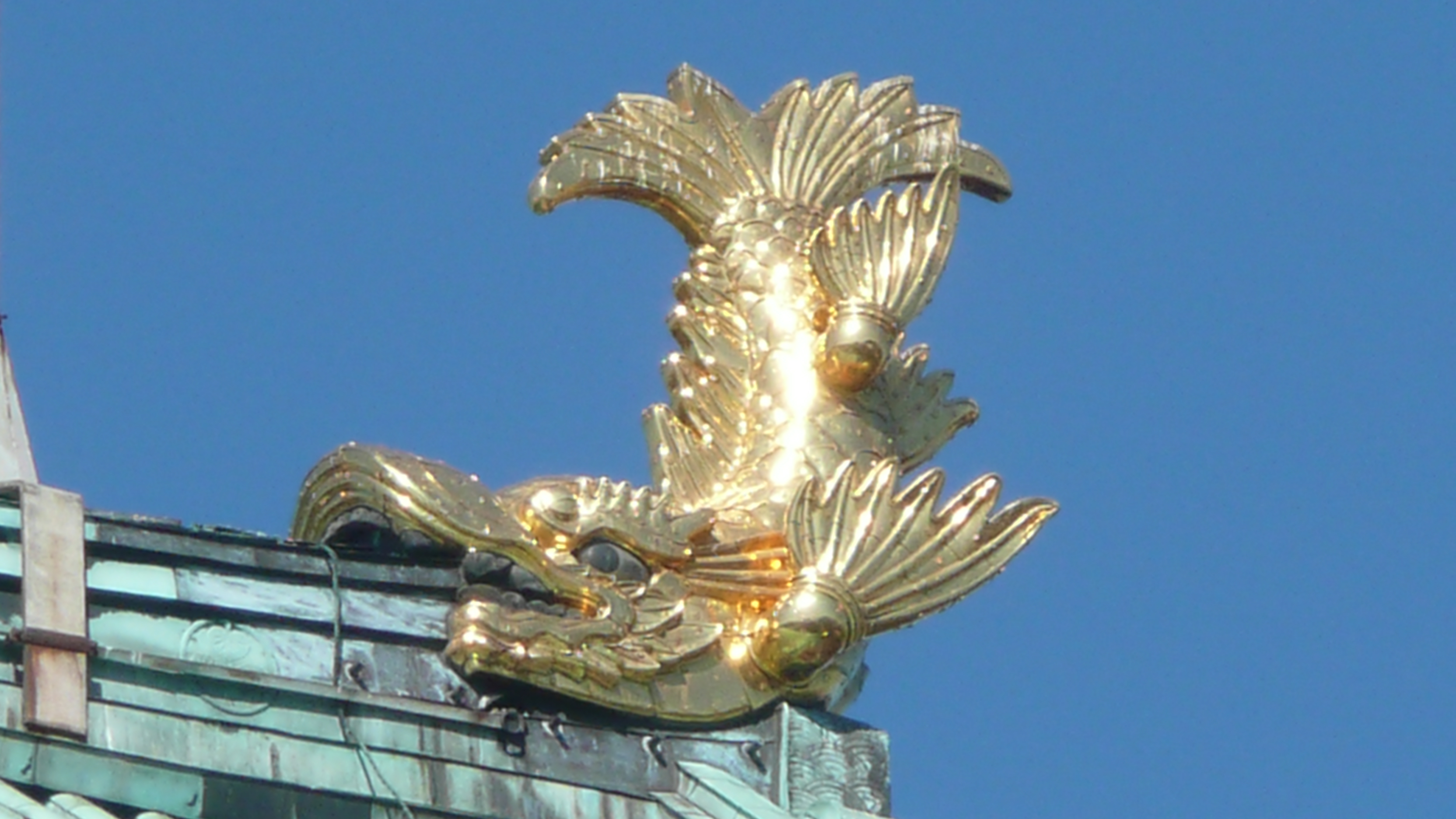 Dolphin of the Nagoya Castle, Japan